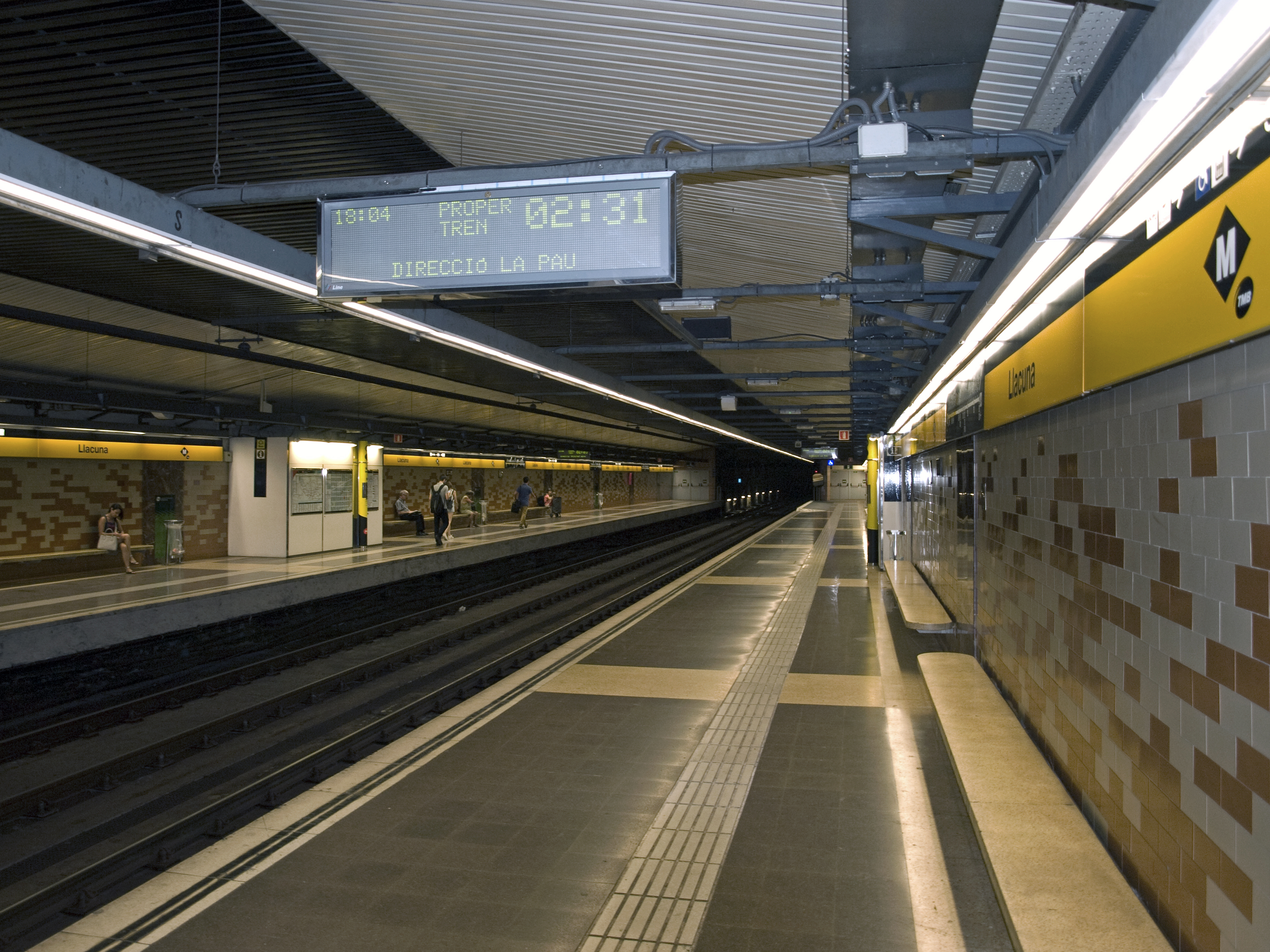 Llacuna station platforms, line L4, Barcelona Metro. The photo is taken from the platform in the direction of La Pau.